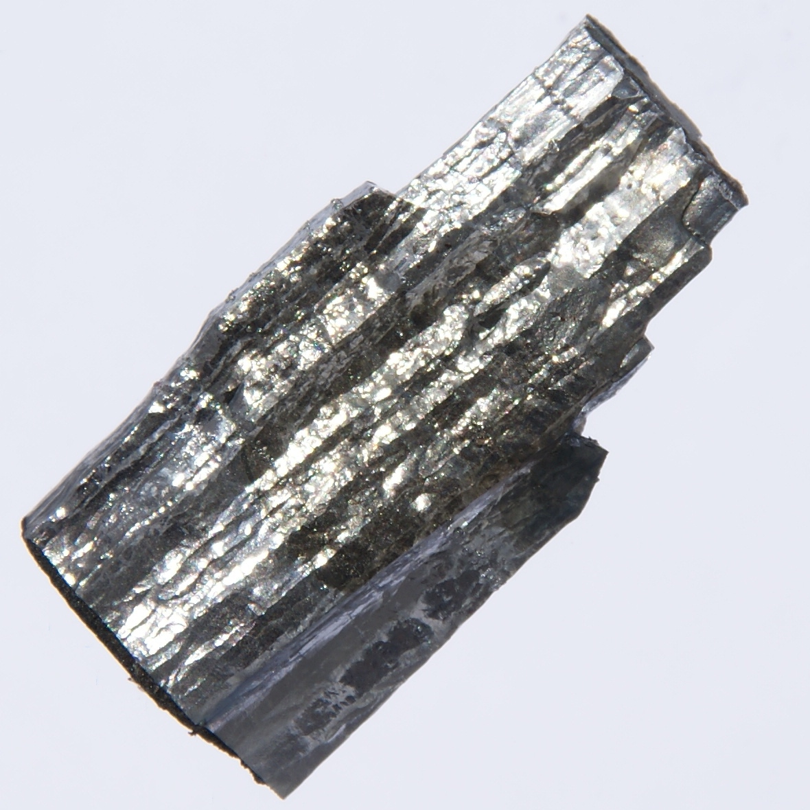 99.9 pure Molybdenum crystal, about 2 x 3 cm, with anodisation color.